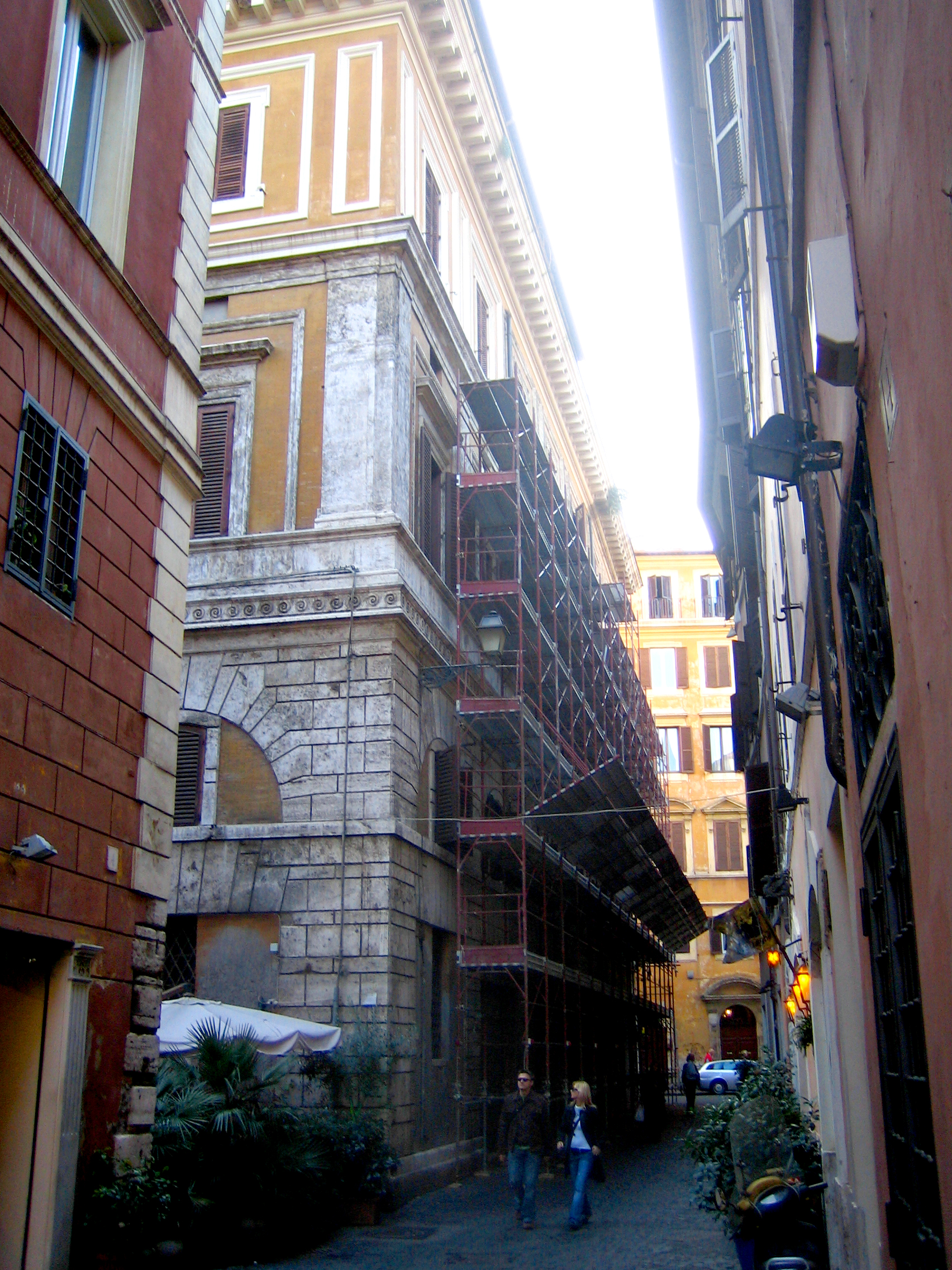 see above